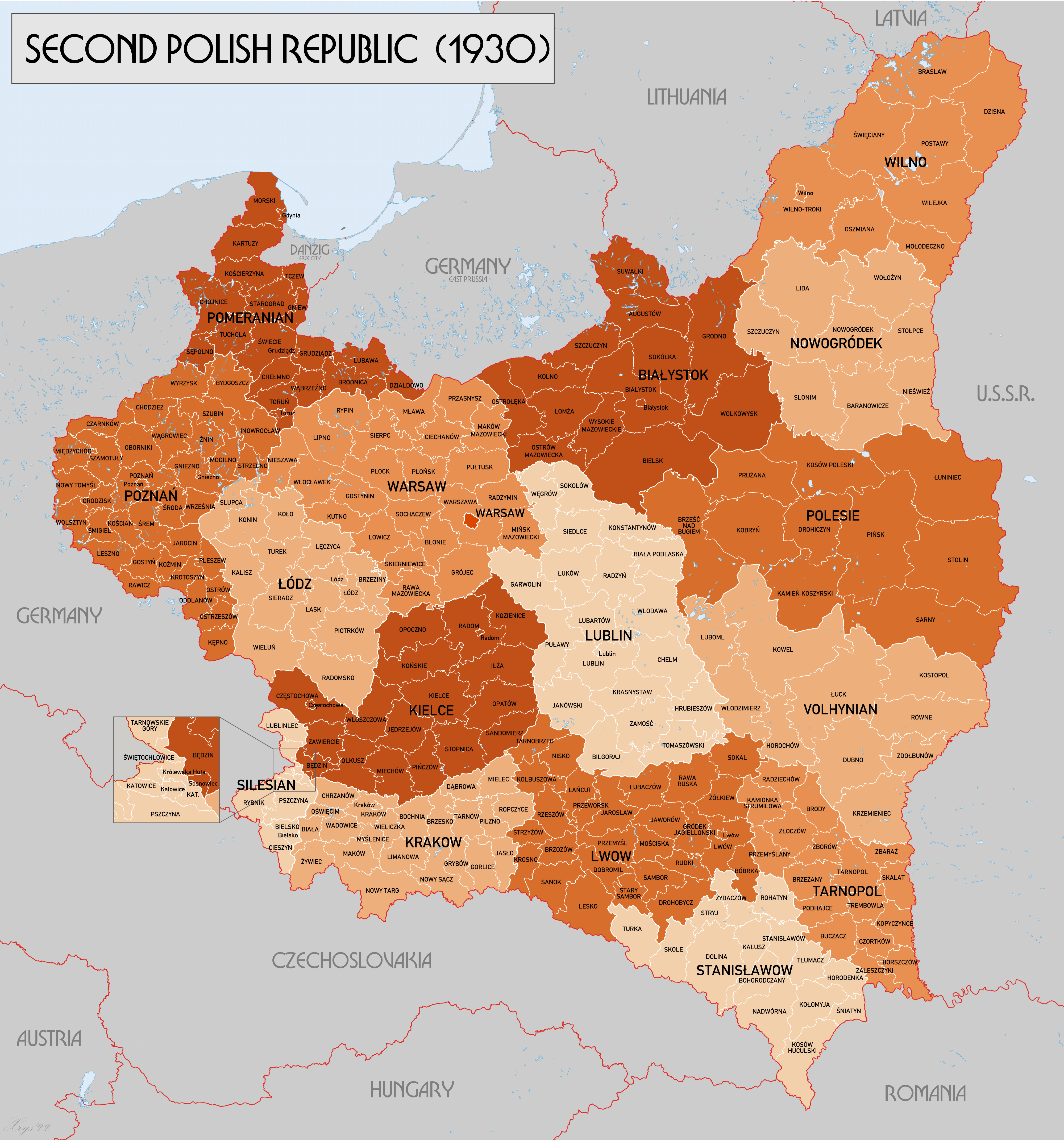 English language version of File:RzeczpospolitaPolska1930.png